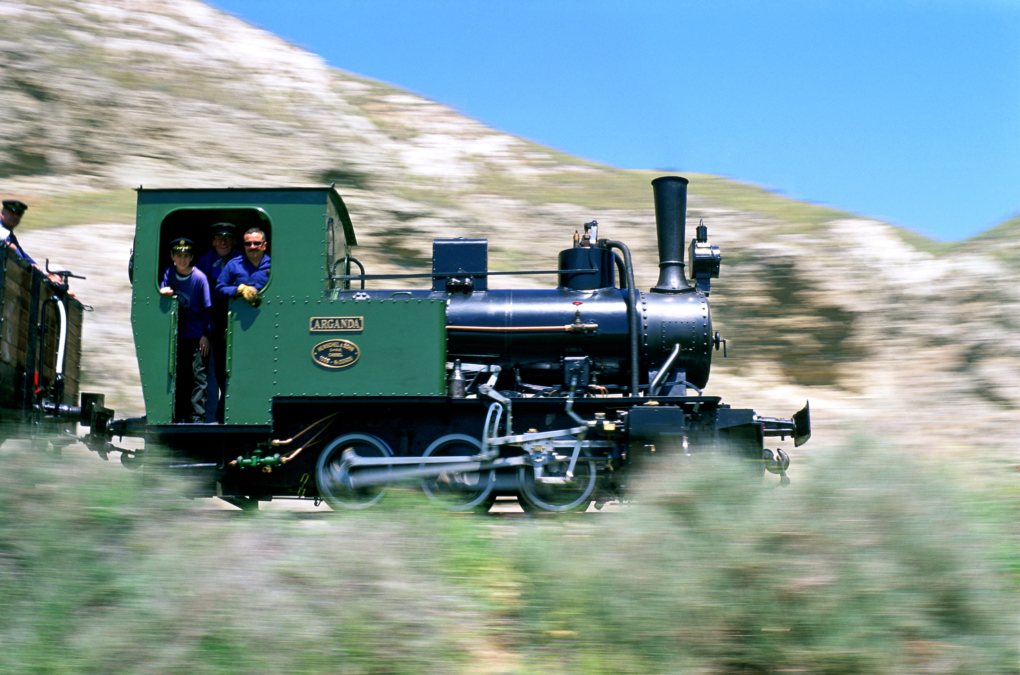 Preserved steam locomotive. Madrid, Spain. This engine is preserved by CIFVM (Vapor Madrid).